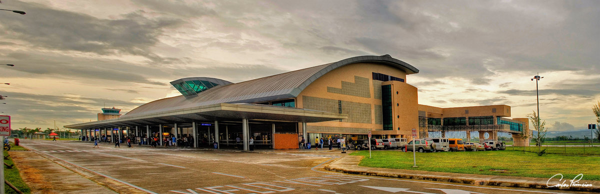 The terminal building of the Bacolod-Silay International Airport. Photo taken on 12 April 2008. Summary The terminal building of the Bacolod-Silay International Airport. Photo taken on 12 April 2008.